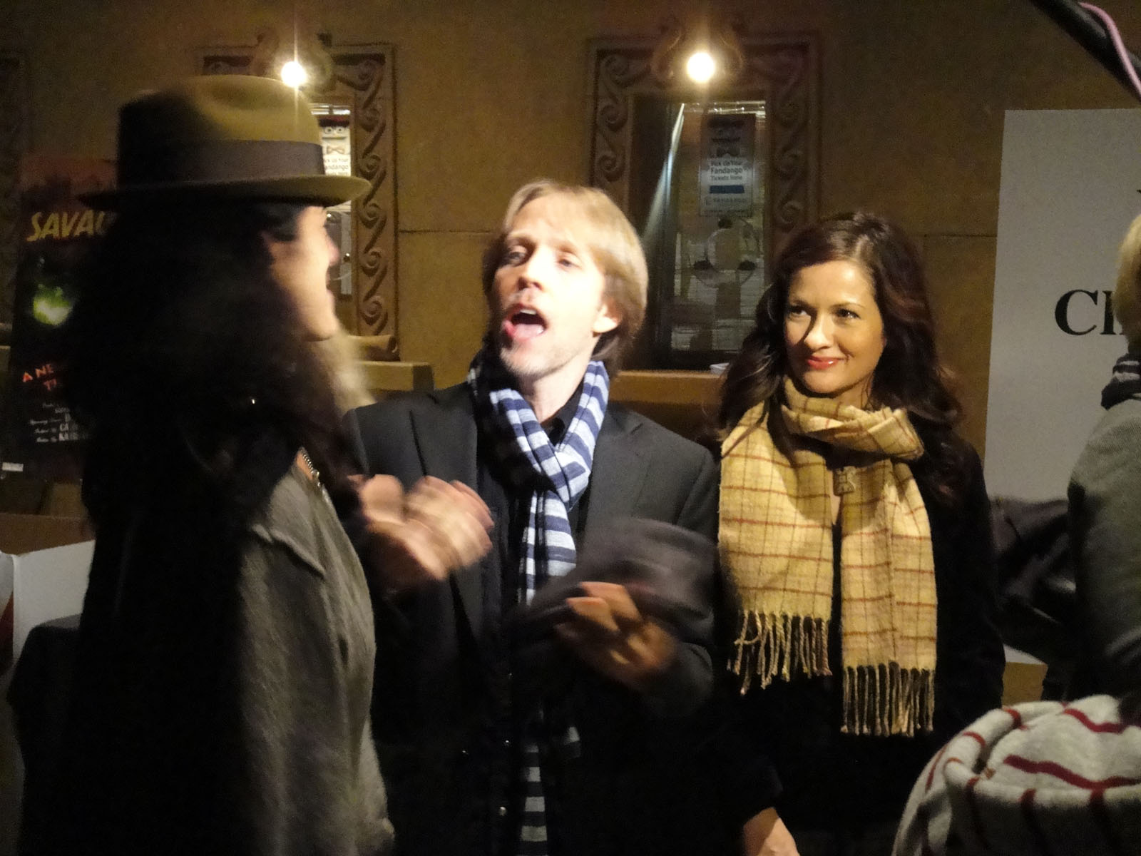 Clone Wars screening - Nika Futterman (Asajj Ventress), James Arnold Taylor (Obi-Wan), Catherine Taber (Padme Amidala) chat outside the theater